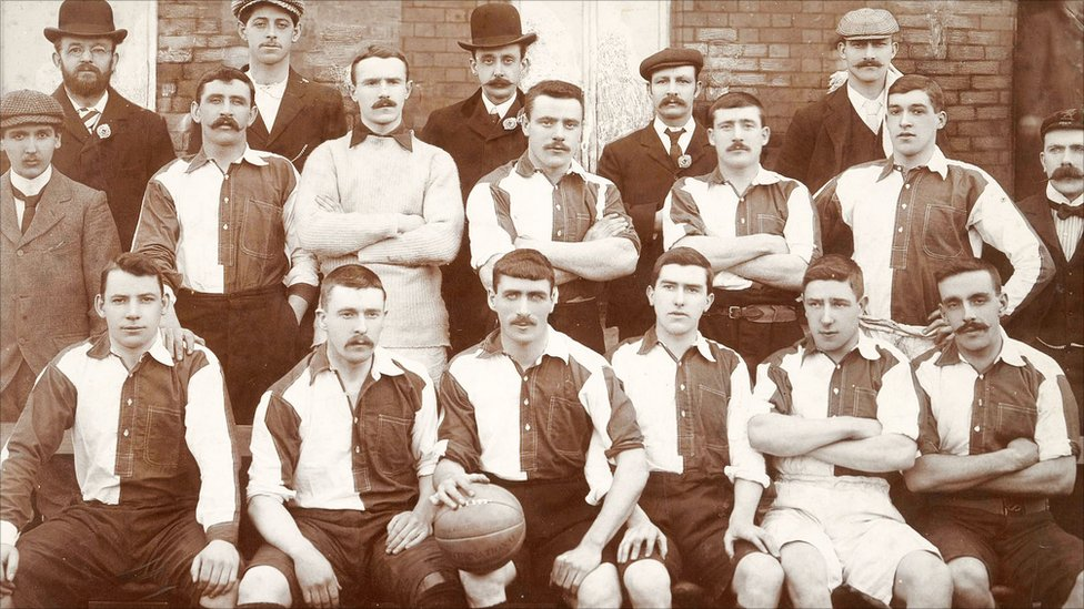 The Welsh national football team that played in Newcastle against England on 18th March, 1901. Leigh Roose is wearing the goalkeeper's jersey. The captain, Billy Meredith, is holding the ball.